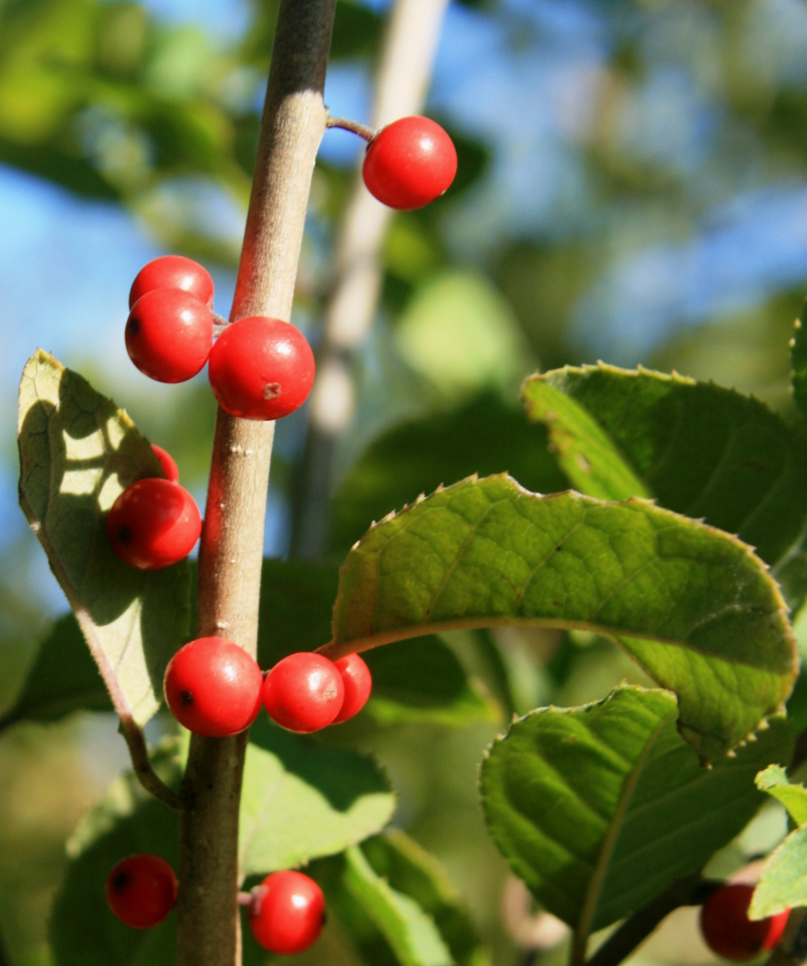 Ilex serrata fruit detail